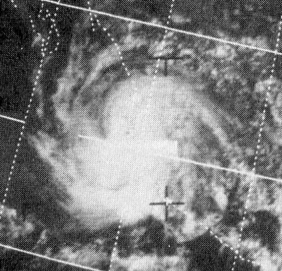 This ESSA 9 weather satellite image of Hurricane Lily was taken on August 31, 1971 at 2125 UTC